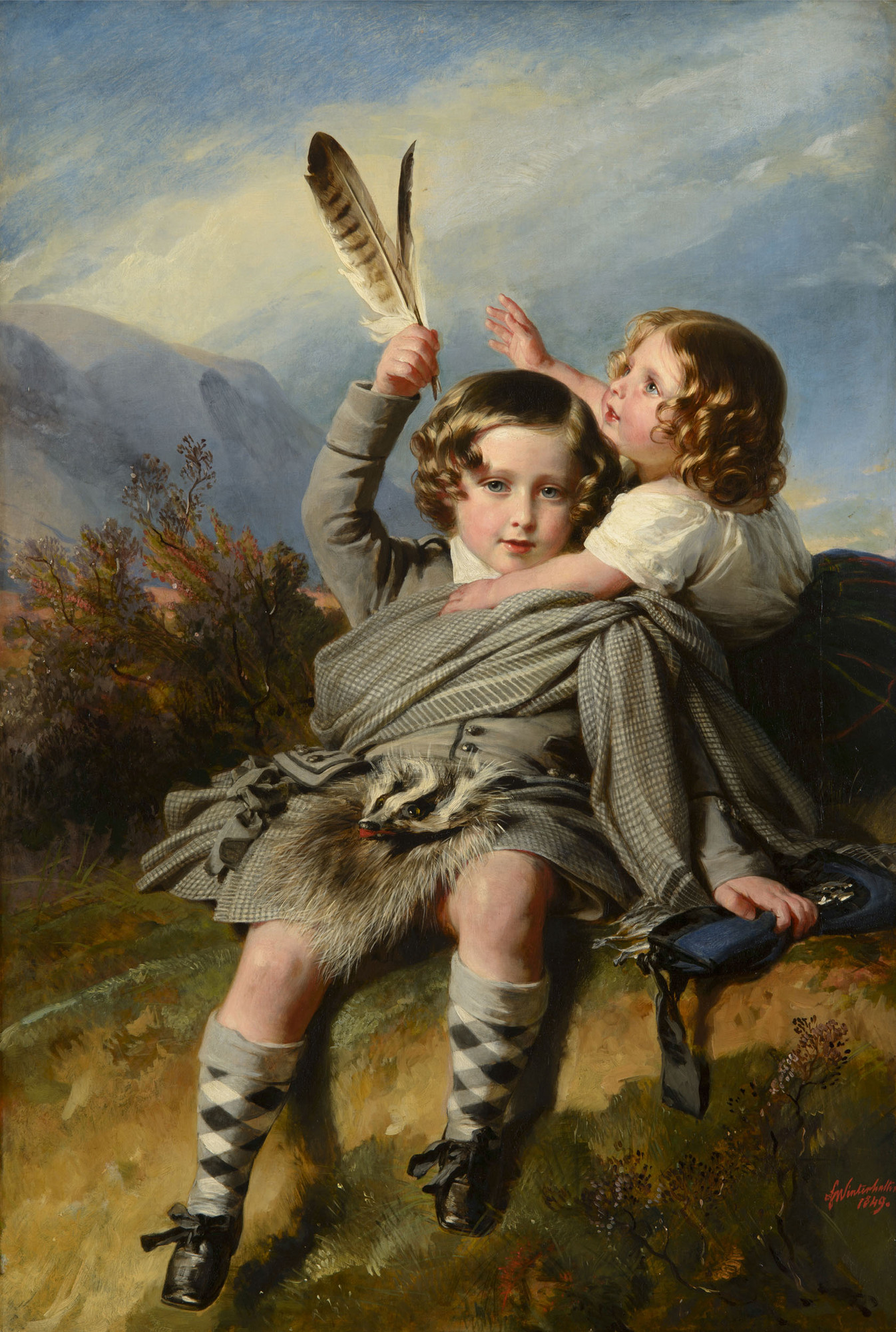 Princess Helena and Prince Alfred of England